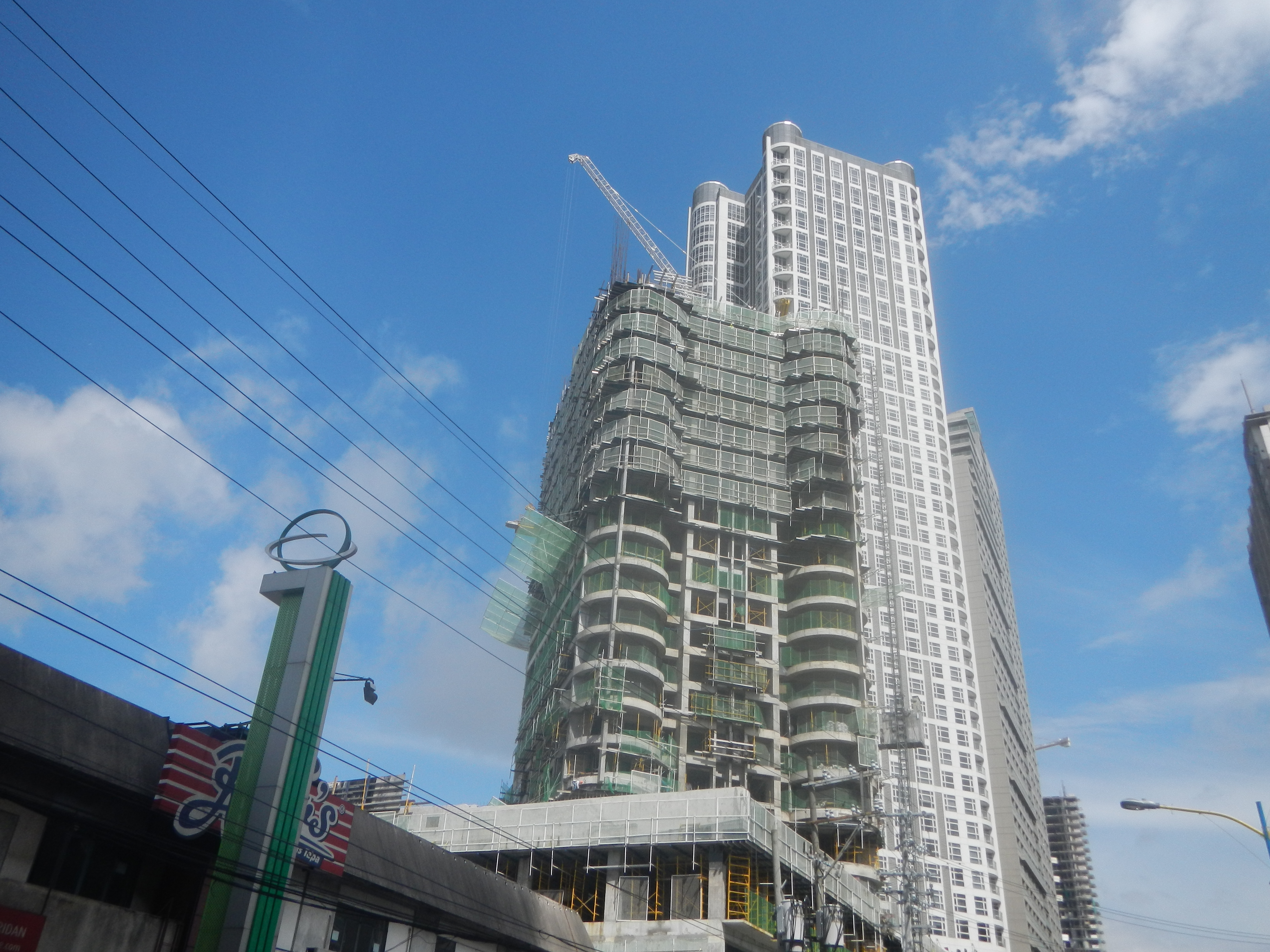 Shaw Boulevard MRT Station connected by elevated pedestrian walkways Starmall EDSA-Shaw EDSA_(road) Cityland, Shaw Boulevard Radial Road 5 Starmall EDSA-Shaw Vista Land & Lifescapes Soho Central Twin Oaks Place West Tower, Cityland Shaw Tower and The Saint Francis Shangri-La Place, Greenfield District, Mandaluyong City, Brgy. Wack-Wack Greenhills, Mandaluyong located beside Boundary neighbor Mandaluyong City Boundary Monument (Greenhills, Shaw Boulevard, Greenfield District, Ortigas Center, Pasig City) List of barangays of Metro Manila, Barangay San Antonio beside Kapitolyo, and Oranbo, Pasig City; (Note: Judge Florentino Floro, the owner, to repeat, Donor Florentino Floro of all these photos hereby donate gratuitously, freely and unconditionally all these photos to and for Wikimedia Commons, exclusively, for public use of the public domain, and again without any condition whatsoever).